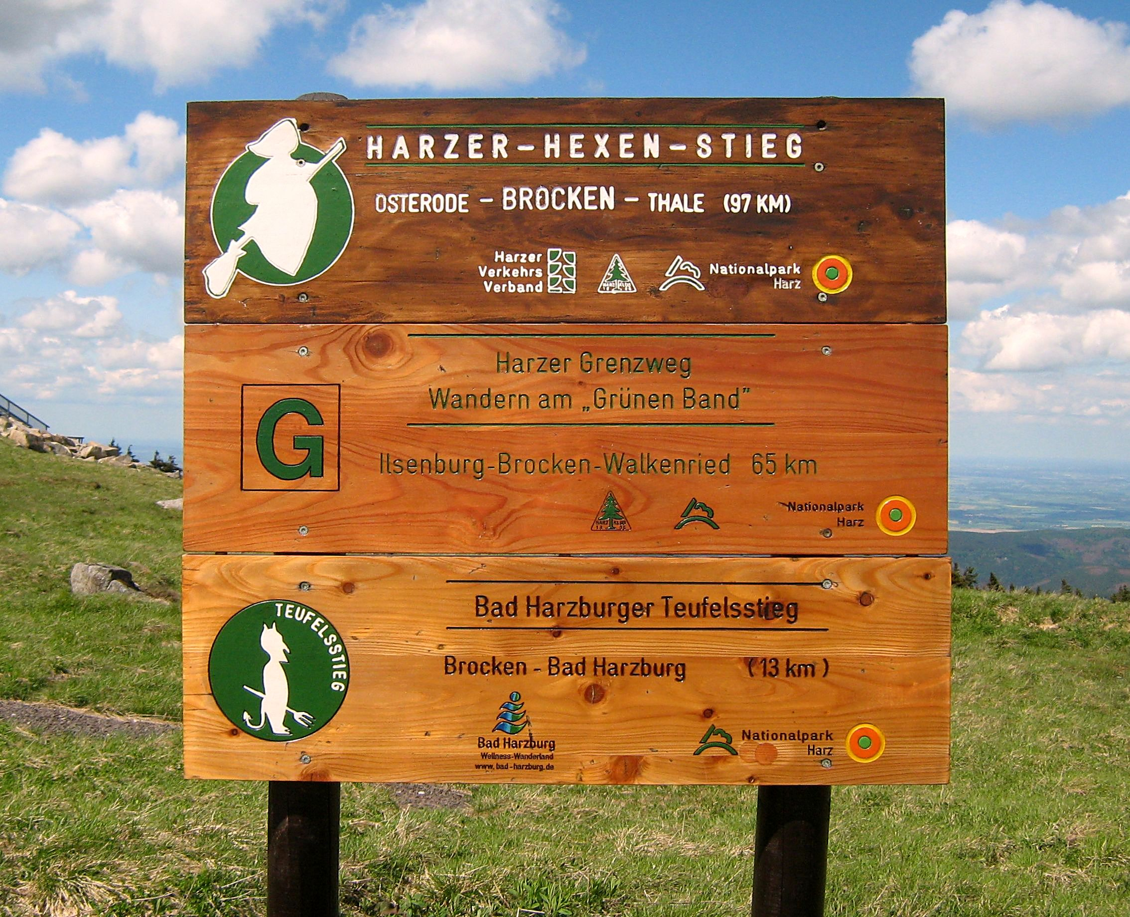 Sign on the top of Brocken, May 2009